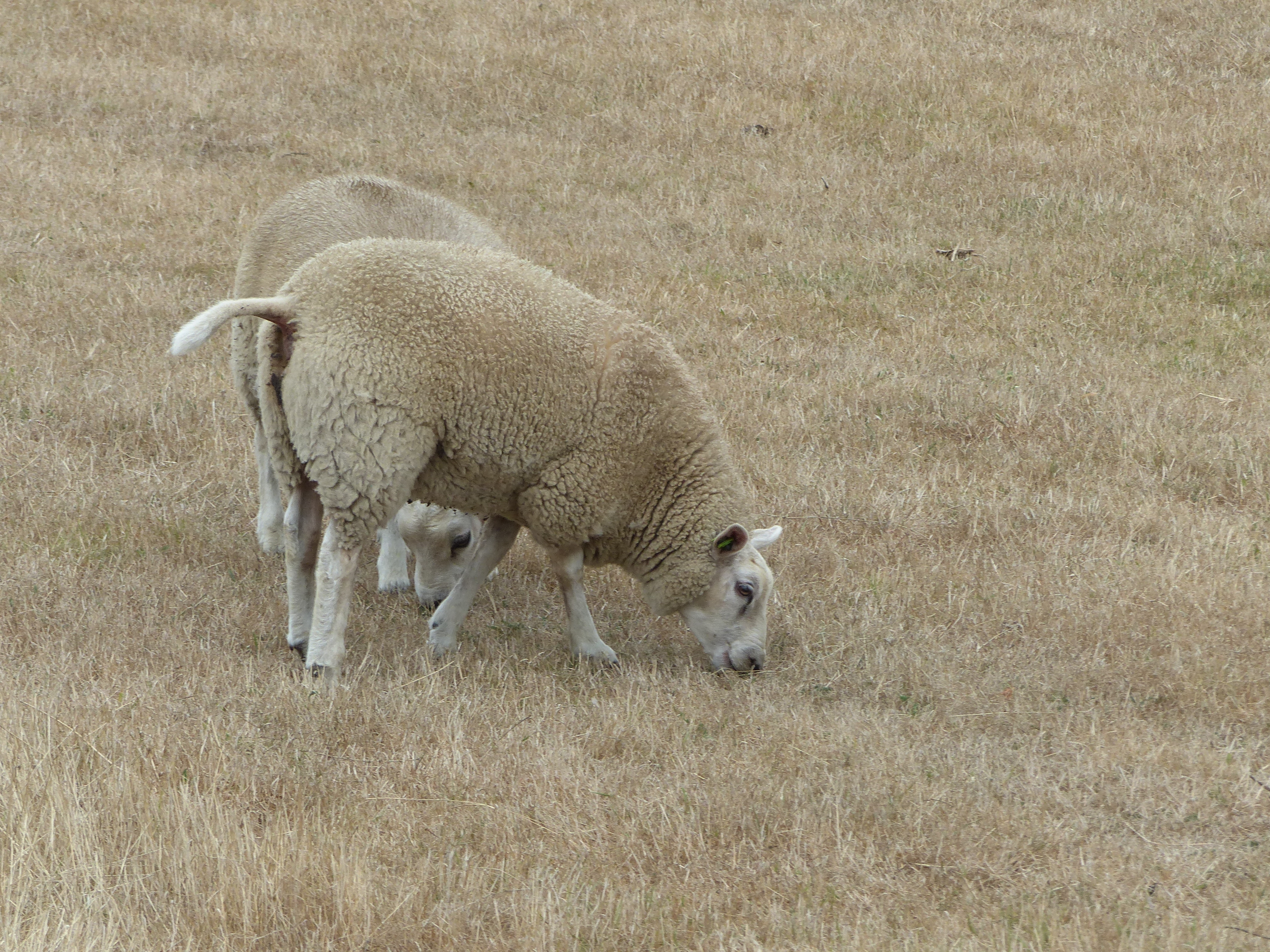 Texel sheep. Polder Eierland, Texel island, Kingdom of the Netherlands on the 9th of August, 2018.